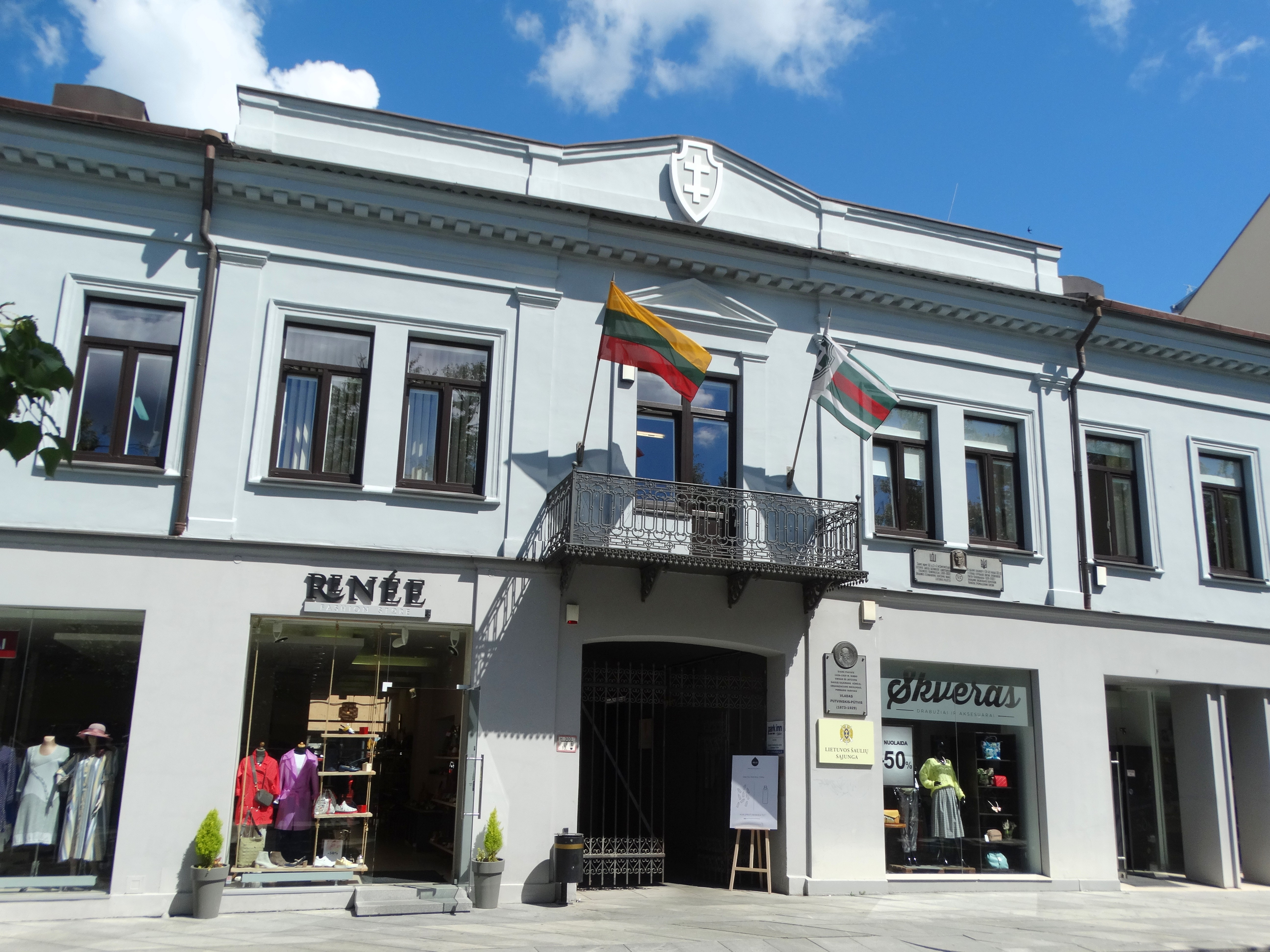 Riflemen's Union, main office, Laisvės al.34, Kaunas, Lithuania